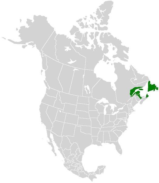 A range map showing the distribution of the Short-tailed Swallowtail (Papilio brevicauda)